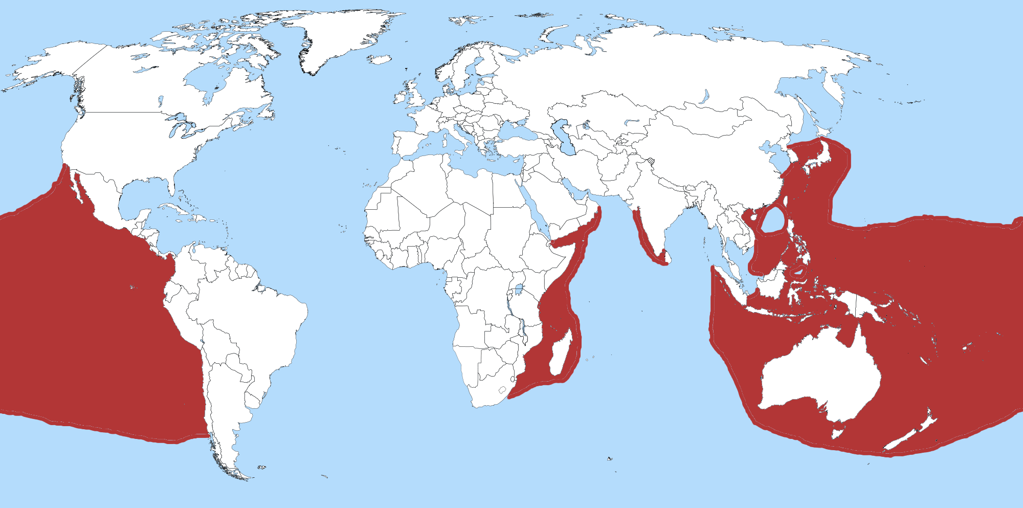 The Distribution of the Mirror Dory